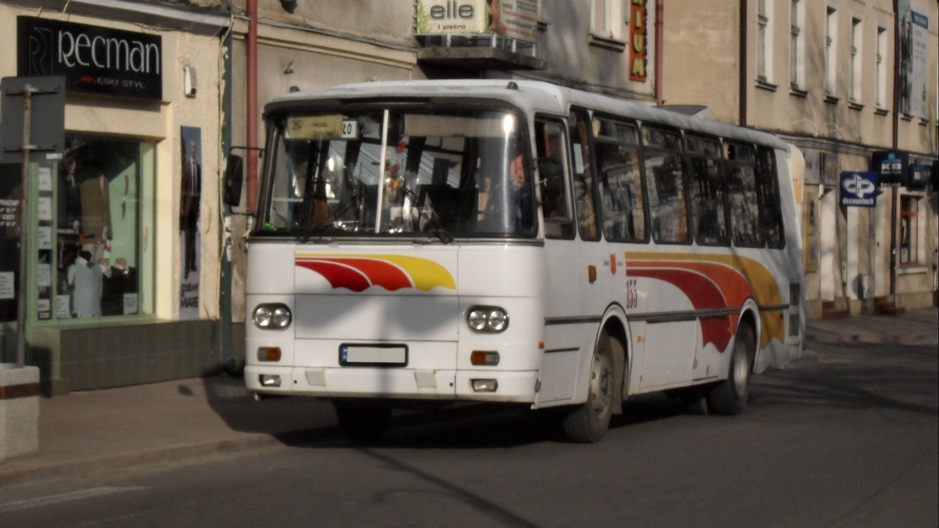 Autosan H9-21 bus (#155) in Jasło, Poland. Built 1988, ZMKS Jasło operator.